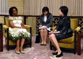 Grace Mugabe, Director of the Women's Affairs Division, Zimbabwe African National Union - Patriotic Front, talked with Akie Abe, spouse of Shinzō, in Japan on March 28, 2016.